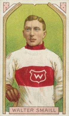 Imperial Tobacco Co. hockey card of canadian ice hockey player Walter Smaill with the Montreal Wanderers.